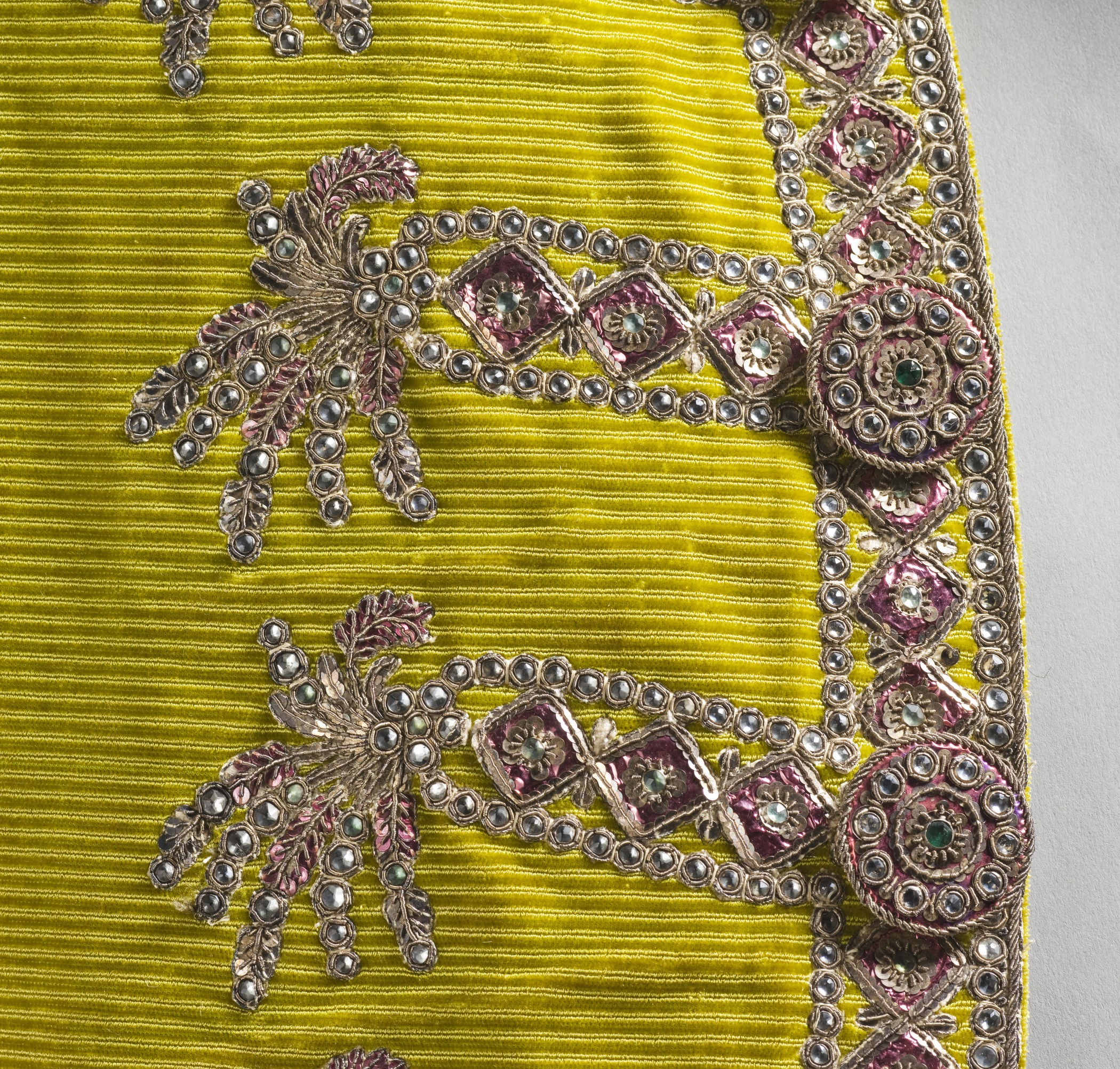 France, 1780-1785 Costumes; principal attire (entire body) Coat and breeches: silk cut and uncut velvet on twill foundation with paste stones, foil, sequins, and metallic-thread embroidered appliqués; waistcoat: silk satin with foil, sequins, and metallic-thread embroidery a) Coat center back length: 42 1/2 x . (107.95 x ); b) Waistcoat center back length: 26 x . (66.04 x ); c) Breeches inseam: 18 in. (45.72 cm); c) Breeches sideseam: 26 3/8 x . (66.9925 x ) Purchased with funds provided by Suzanne A. Saperstein and Michael and Ellen Michelson, with additional funding from the Costume Council, the Edgerton Foundation, Gail and Gerald Oppenheimer, Maureen H. Shapiro, Grace Tsao, and Lenore and Richard Wayne (M.2007.211.950a-c) Costume and Textiles